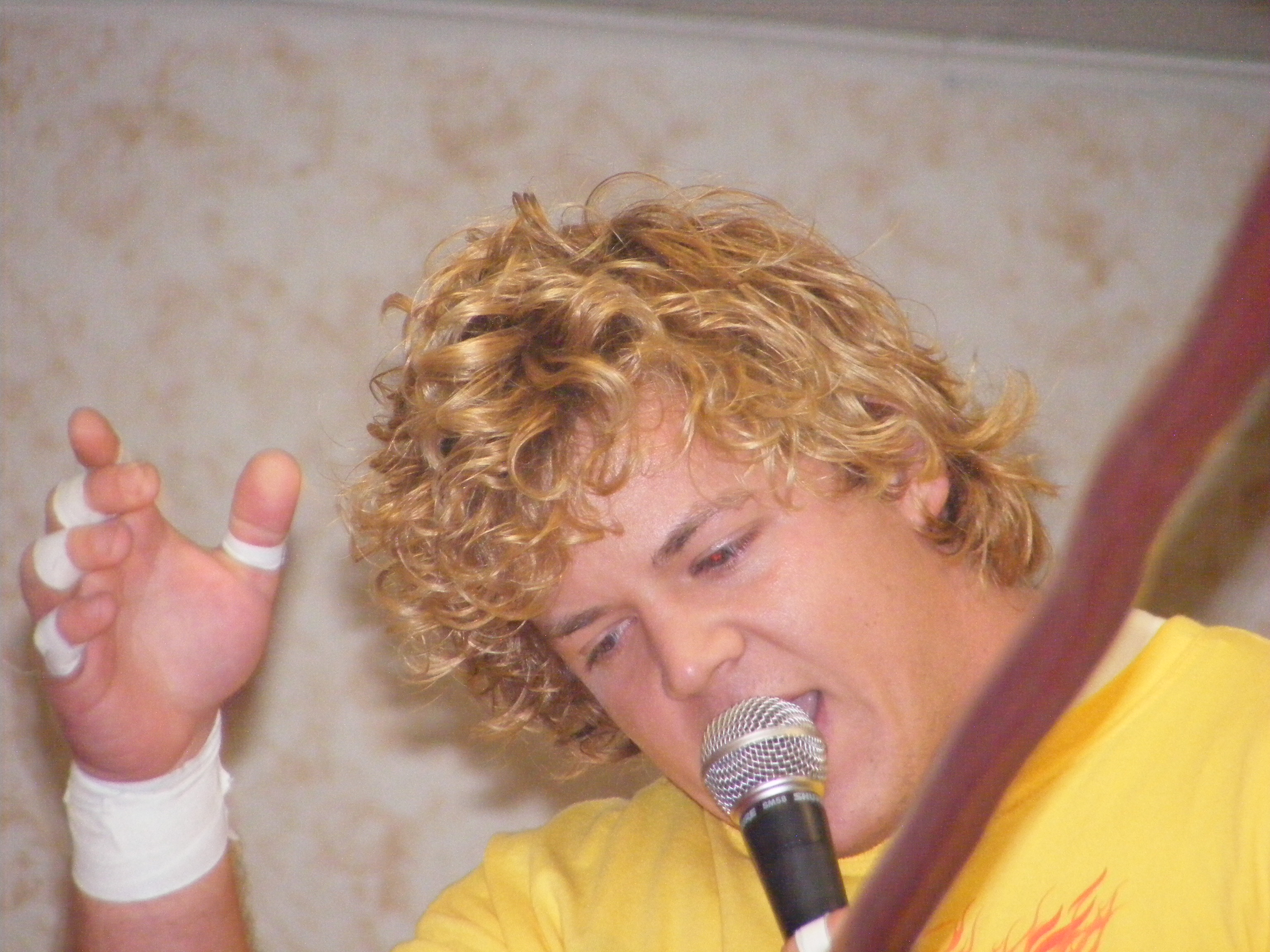 Larry Sweeney on the mic at a Chikara show on November 16, 2008 in Wallingford, CT.